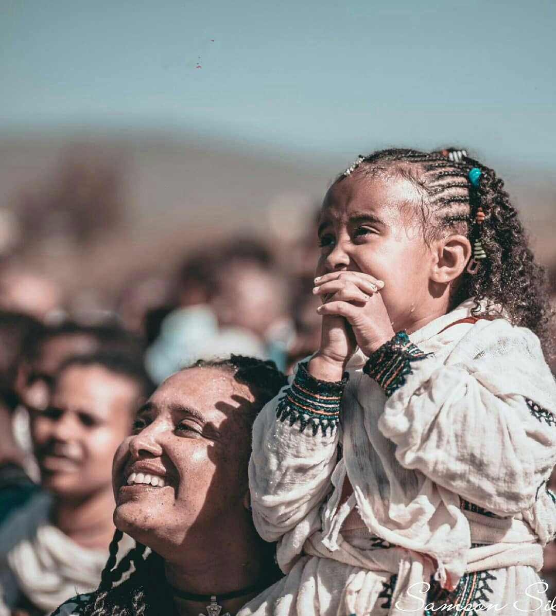 Epiphany or Timket as Ethiopians call it is the Orthodox Tewahedo celebration of Epiphany. It is celebrated on January 19th, corresponding to the 10th day of Terr in the Ethiopian calendar. Timkat celebrates the baptism of Jesus in the Jordan River. This festival is best known for its ritual reenactment of baptism. This is an image with the theme "Play" from: Ethiopia